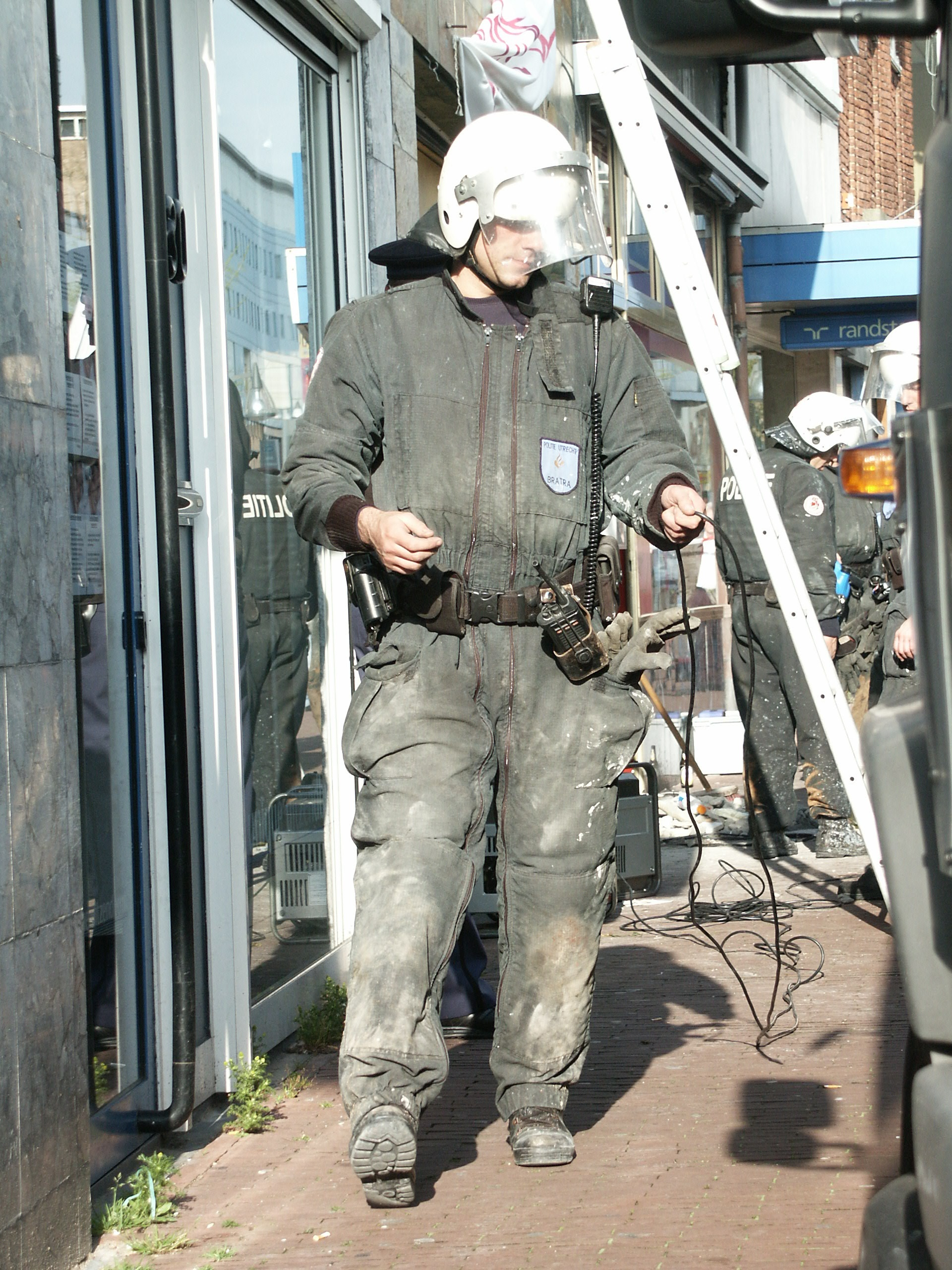 BtraTra member